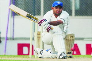 piyush chawla in action